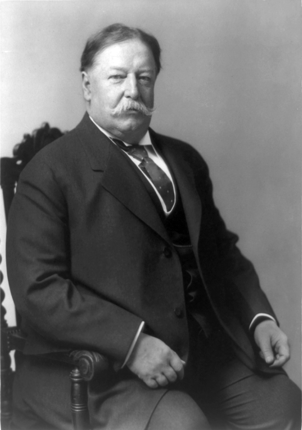 William Howard Taft, 27th President of the United States and 10th Chief Justice of the U.S. Supreme Court